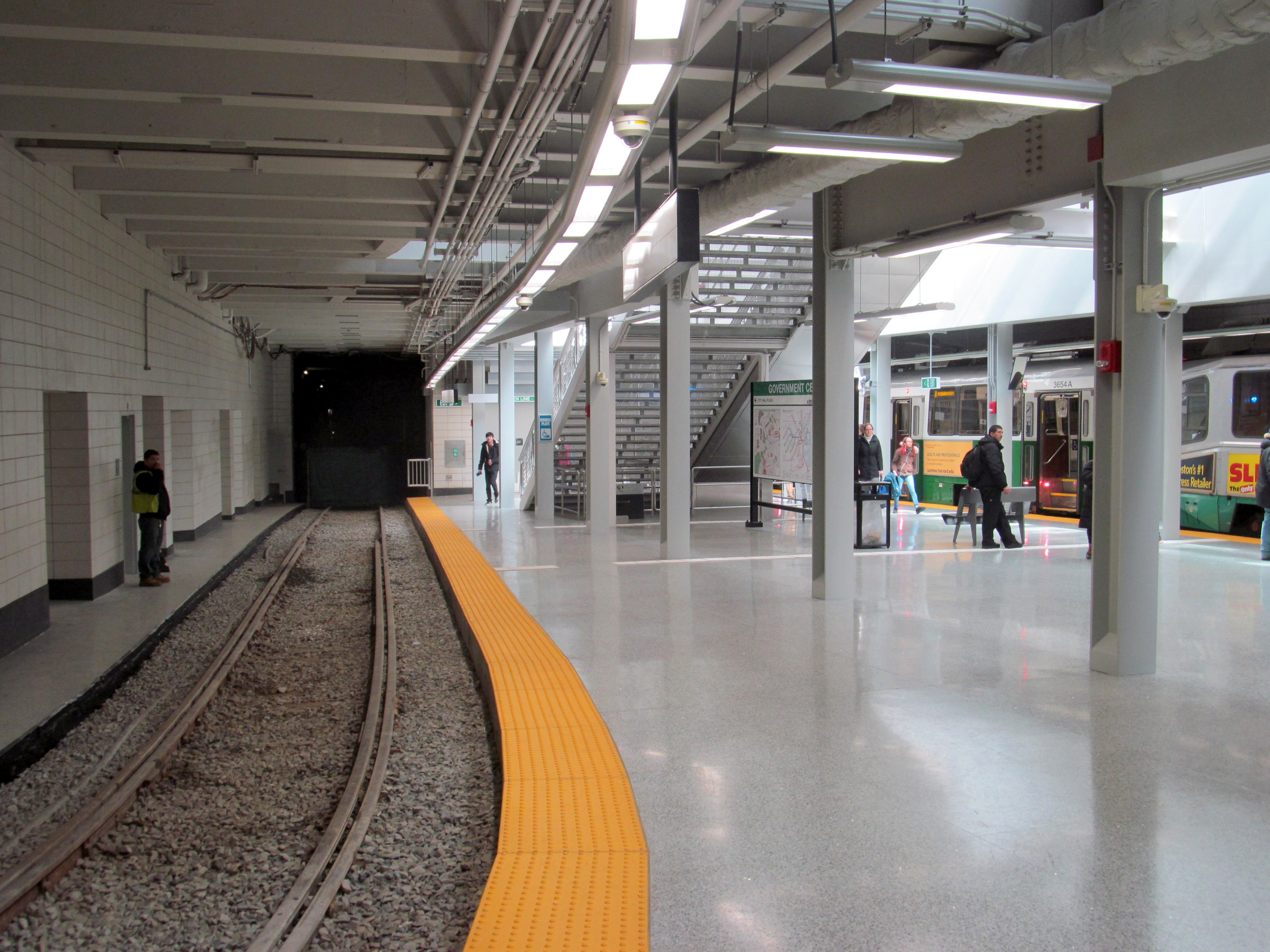 Brattle Loop track and a northbound Green Line train at Government Center station on reopening day in March 2016